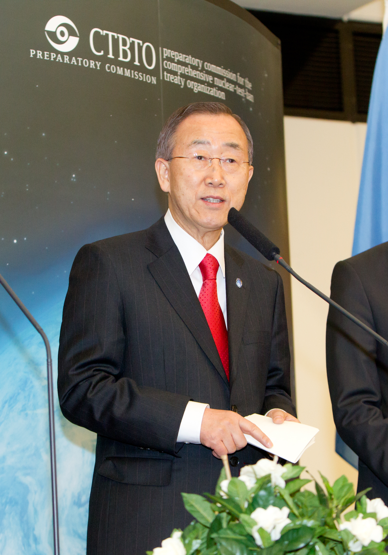 Vienna, Austria, 17.02.2012 - CTBTO 15th anniversary